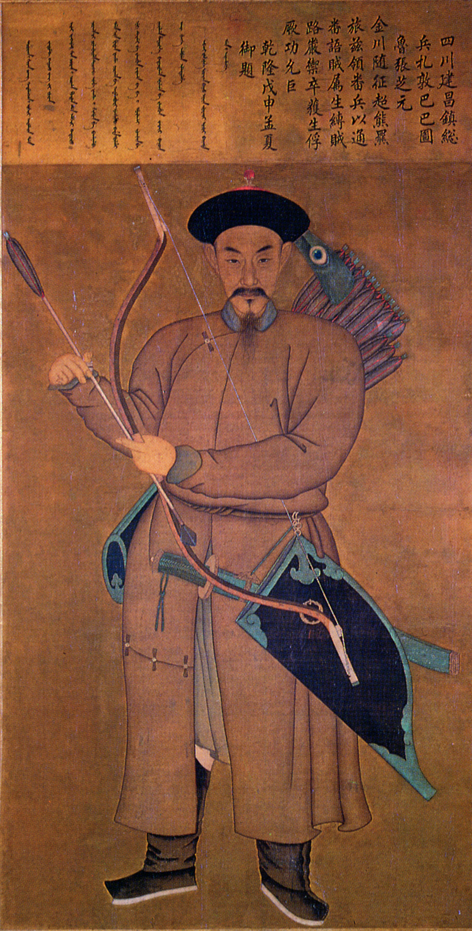 Zhang Zhiyuan (張芝元 zhang zhi yuan), an officer of the Qing Army during Qianlong's era.